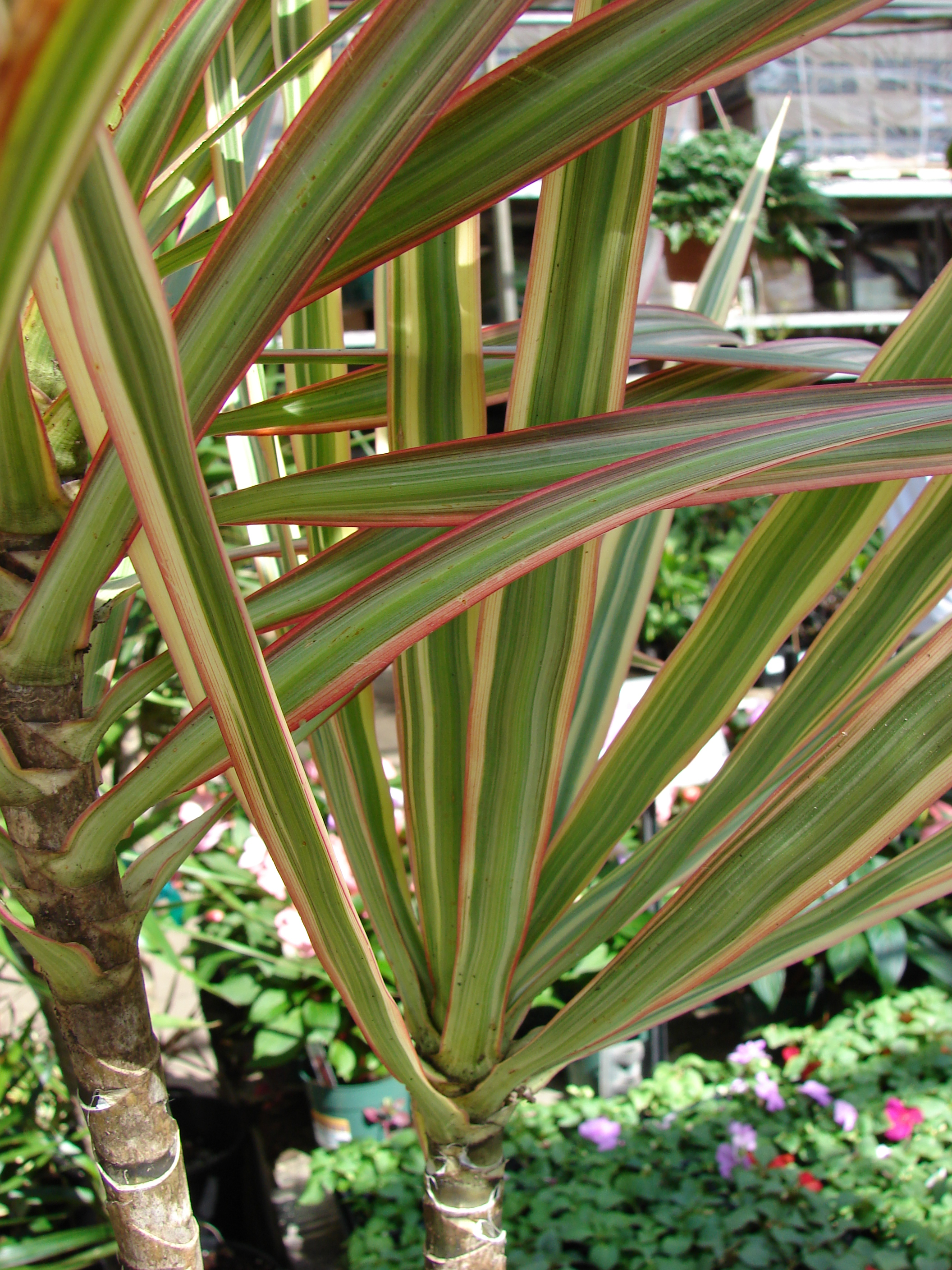 Dracaena marginata (habit). Location: Maui, Home Depot Nursery Kahului